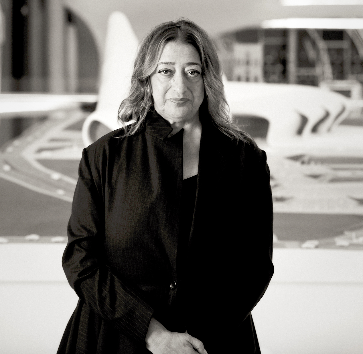 Zaha Hadid in Heydar Aliyev Cultural center in Baku nov 2013